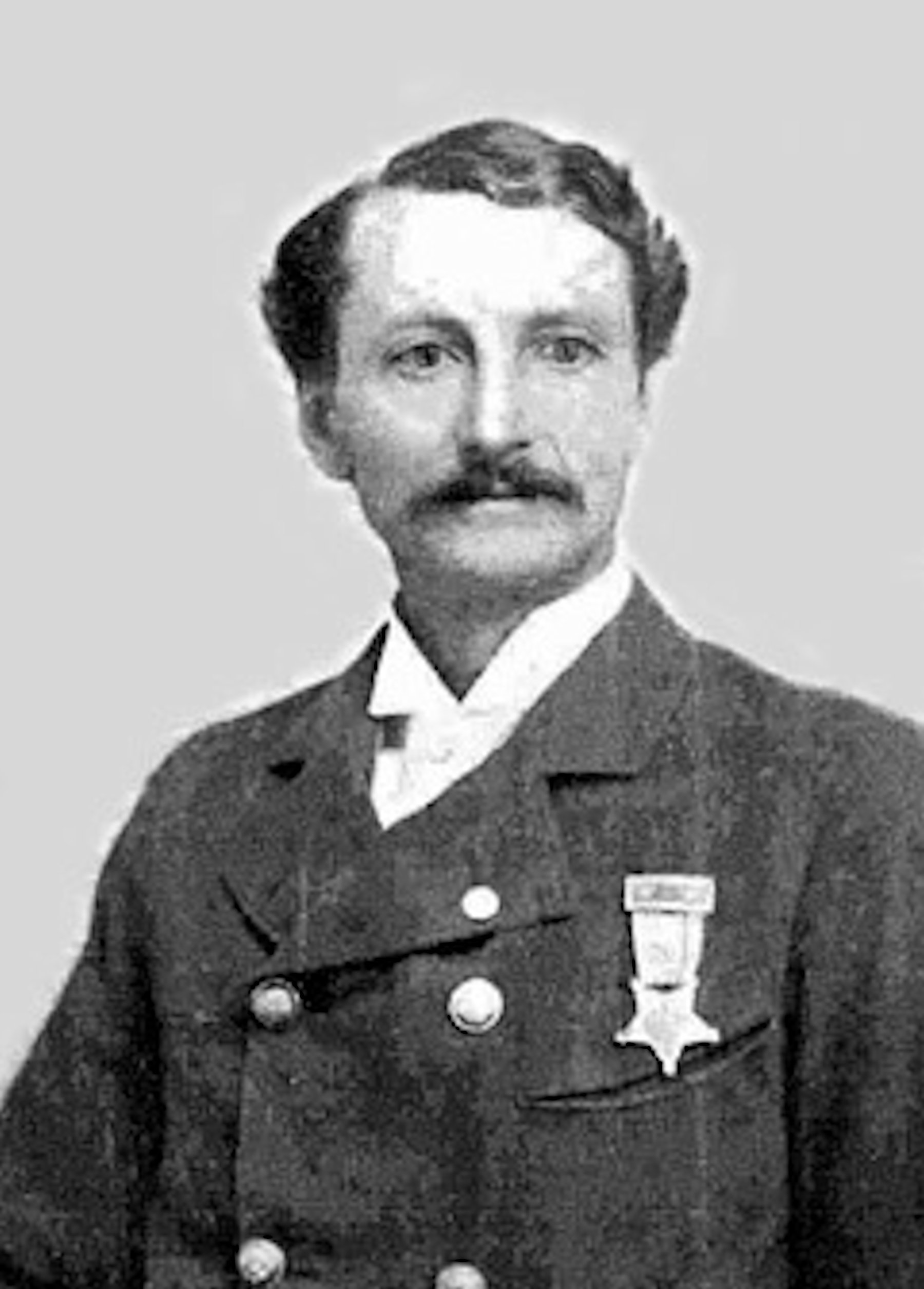 Medal of Honor winner